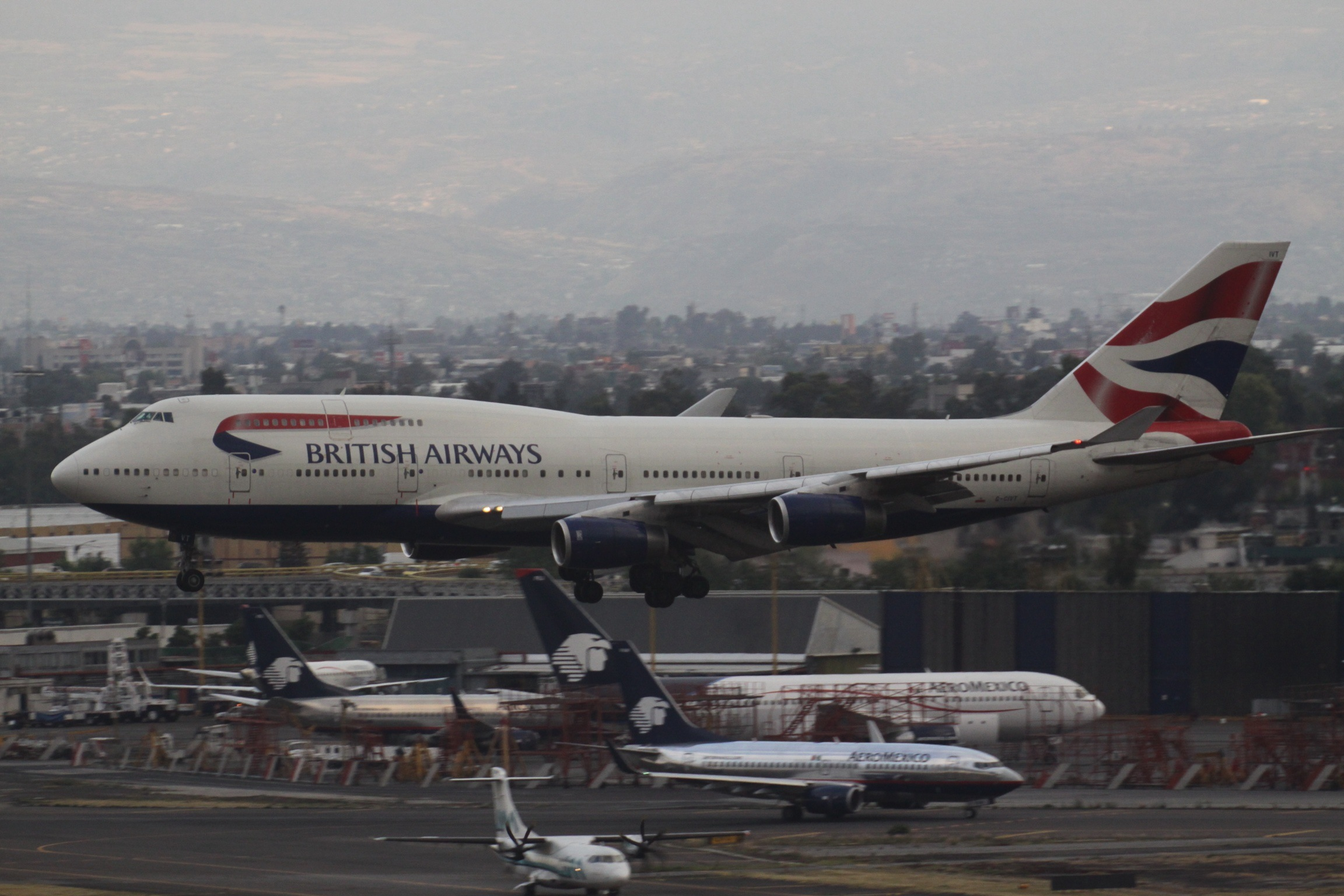 At Mexico City International Airport